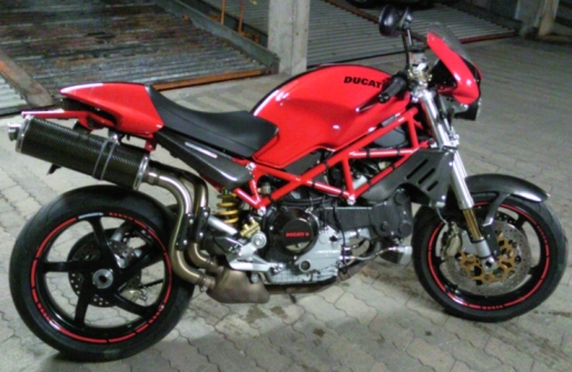 Ducati Monster S4R